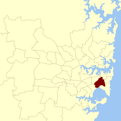 Location of the New South Wales Legislative Assembly electoral district within Sydney in New South Wales. Reference: [1]